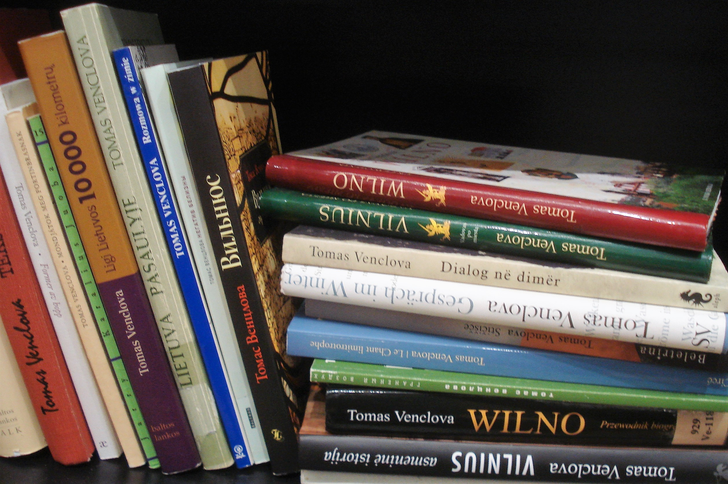 Books by Tomas Venclova